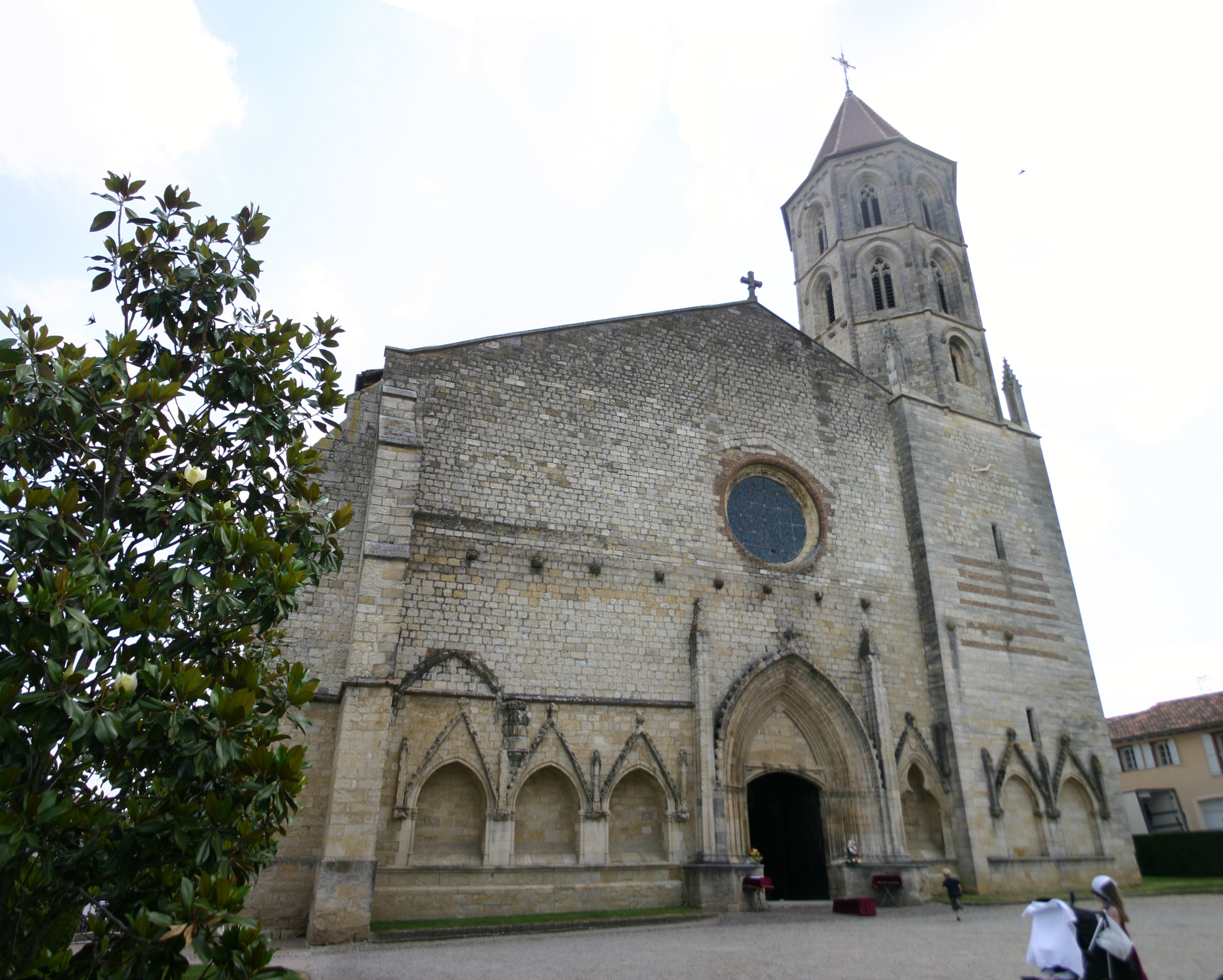 Église Saint-Laurent - the church in Fleurance, France (Note: Picture has Geotag information stored in EXIF.)